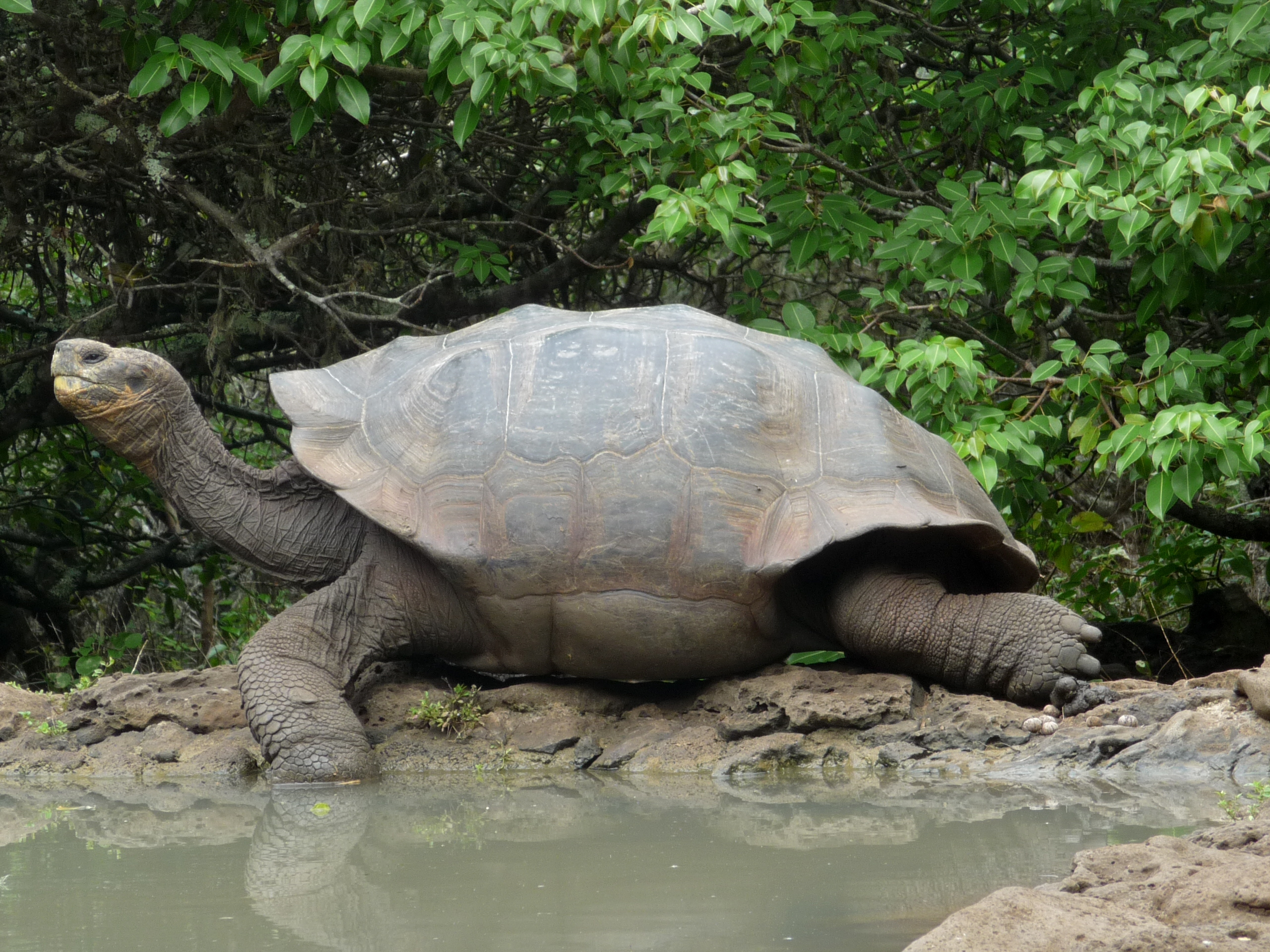 Galapagos Islands